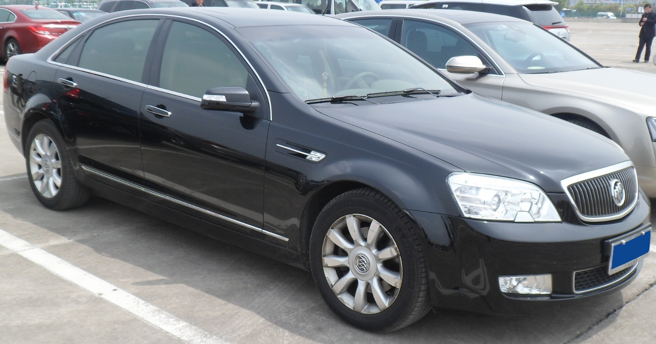 Buick Park Avenue CN photographed in Anting, Shanghai municipality, China.